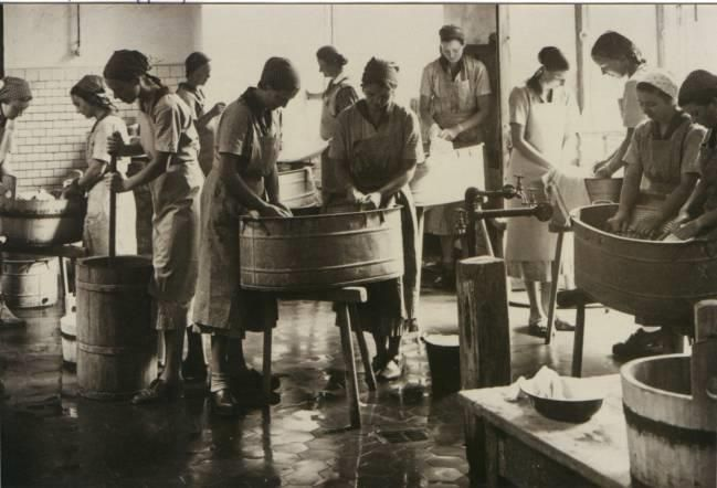 Reifensteiner Schule Reifenstein 1935 Wäschepflege